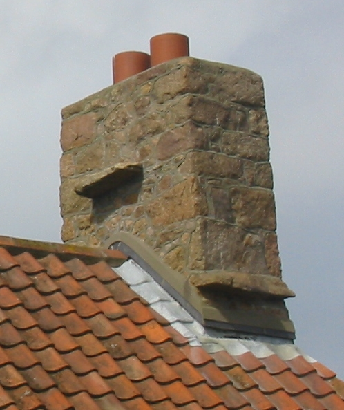 Witches' stones on a chimney in Jersey. In folklore, these are believed to provide resting-places for witches - in fact they were to protect the joins of thatched roofs from seeping water. Photo taken by Man vyi with Canon PowerShot A40 on 22/5/2005